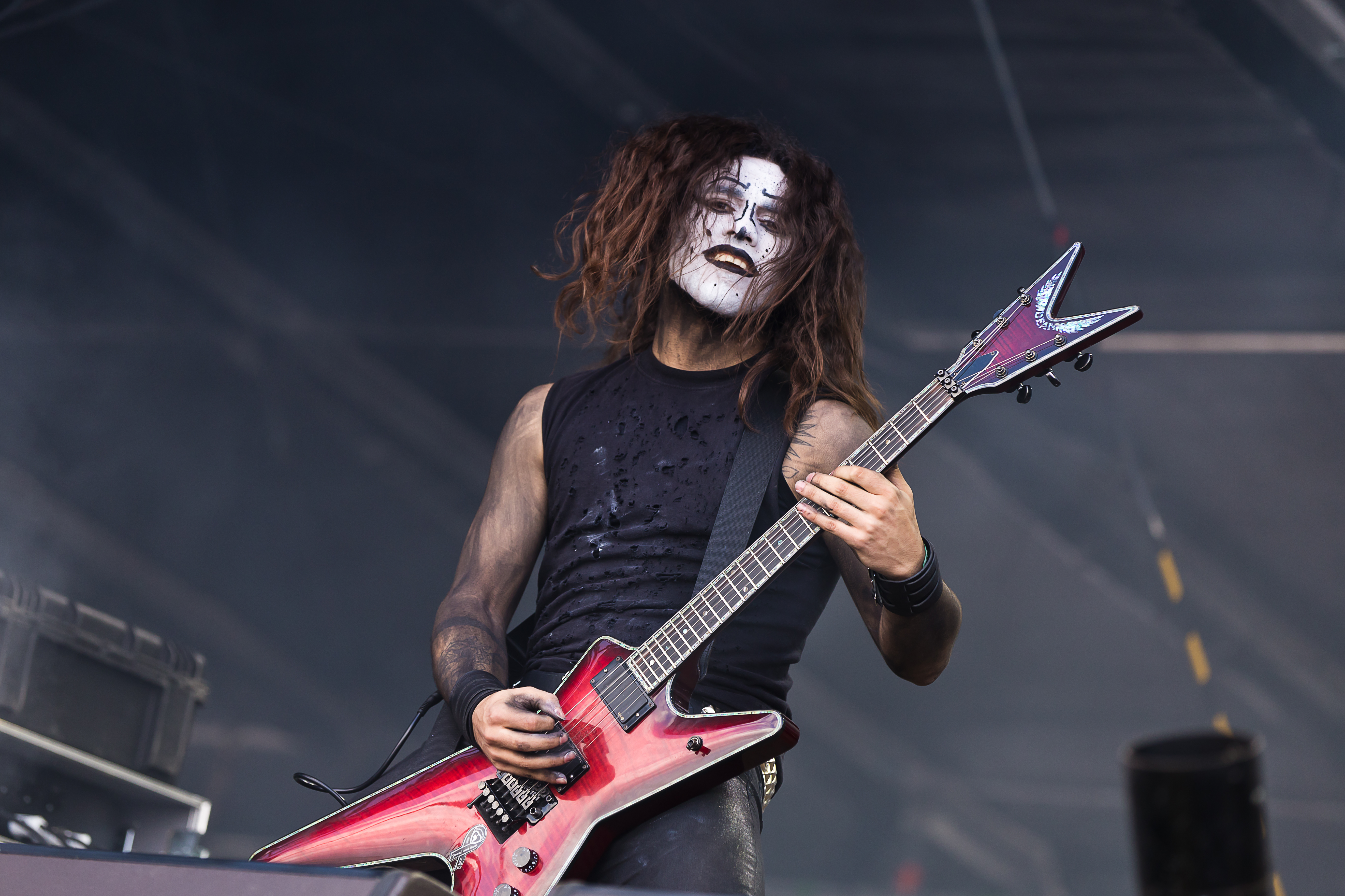 The British extreme metal band Devilment at the Rockharz Open Air 2015 in Ballenstedt/Germany.